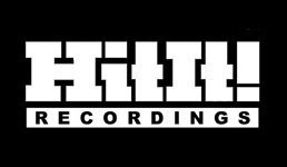 Company logo for Hit It! Recordings a Chicago based independent record company that ran from 1994 to 2000. Logo design by Al Brandtner/Brandtner Design